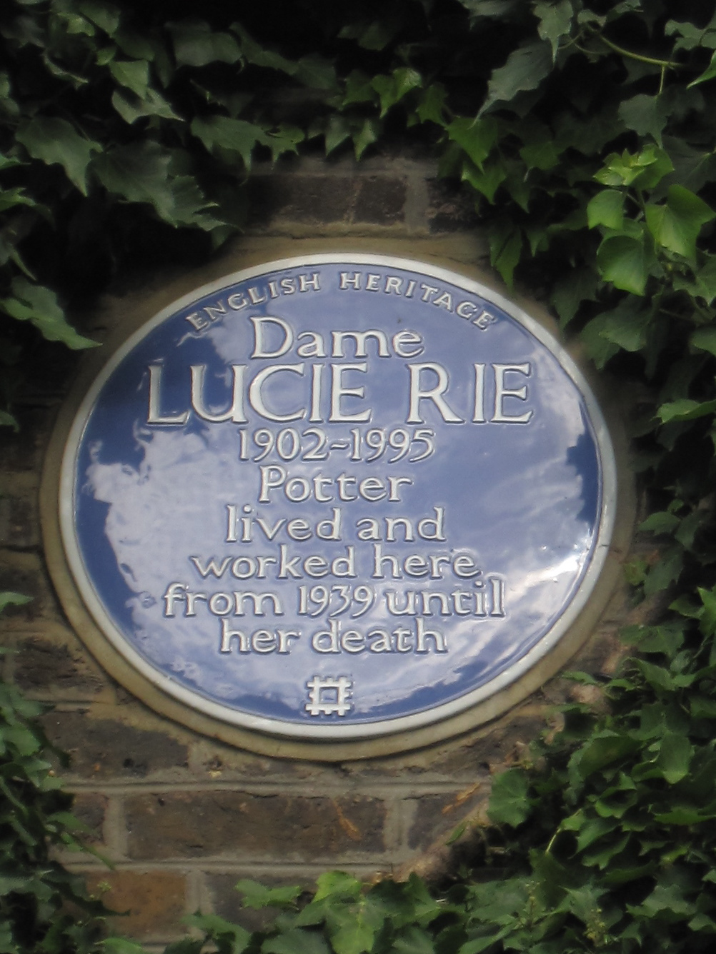 Blue plaque for Dame Lucie Rie, on 18 Albion Mews in London.